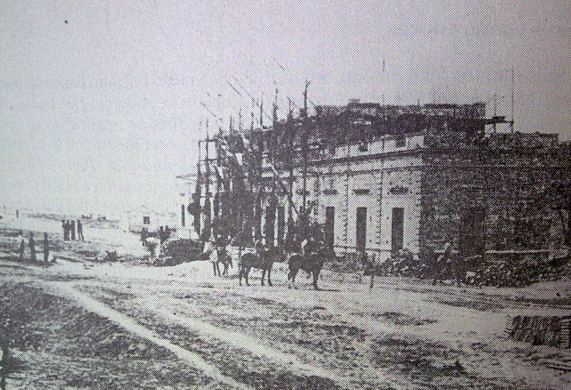 Córdoba railway station of Córdoba Central Railway (Argentina), under construction in the late 1880s.